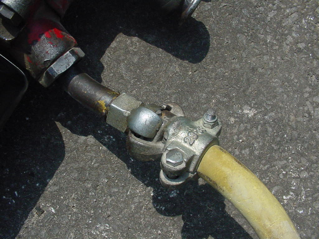 close-up of hose coupling for pneumatic drill / jackhammer air hose